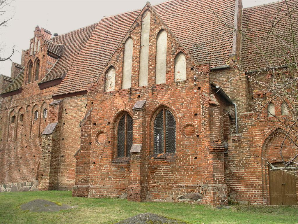 Brüel, Mecklenburg, Germany: church, photo 2007